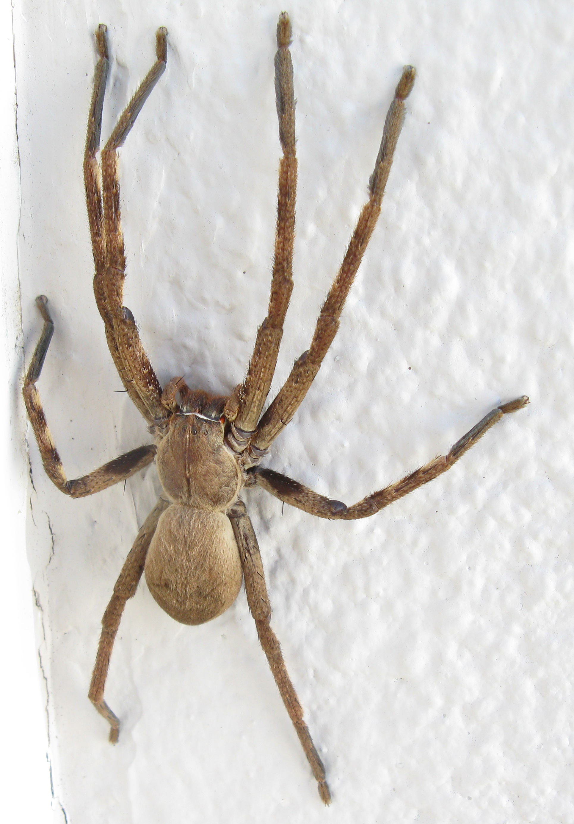 Sparassidae. Palystes castaneus, mature female. Rain spider, or liard eating spider. Photographed near Somerset West, South Africa. Head+body Length about 3 to 4 cm